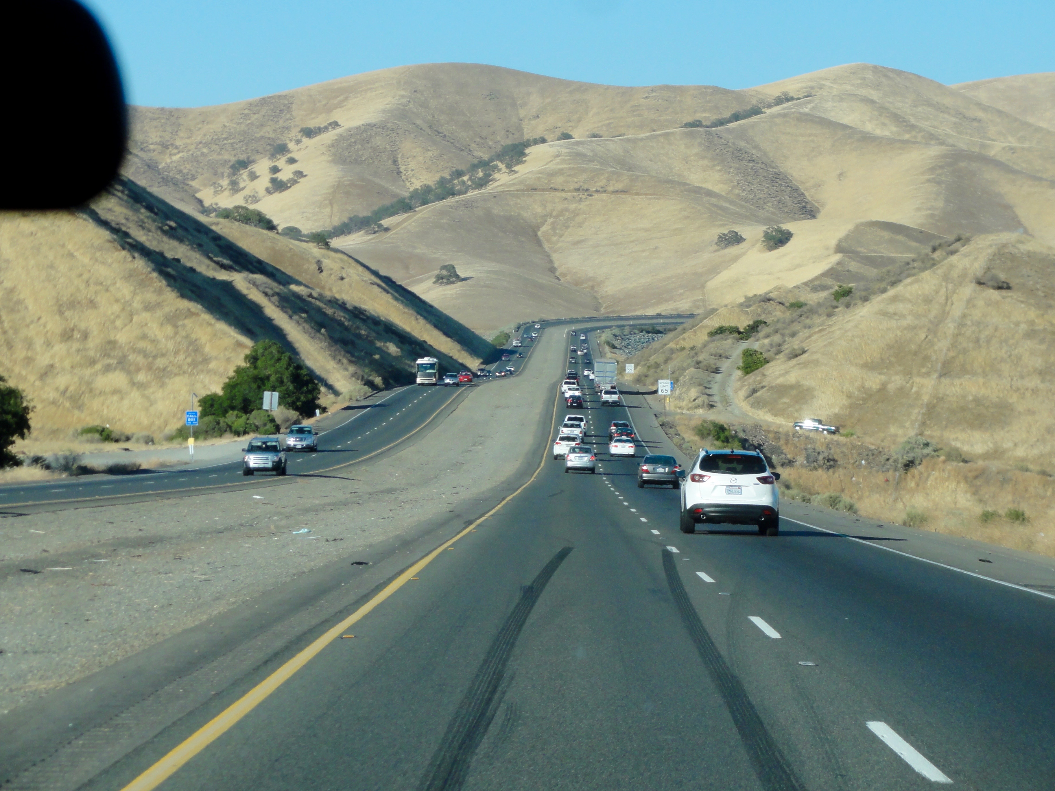 Coming over the summit of Pacheco Pass along CA 152.